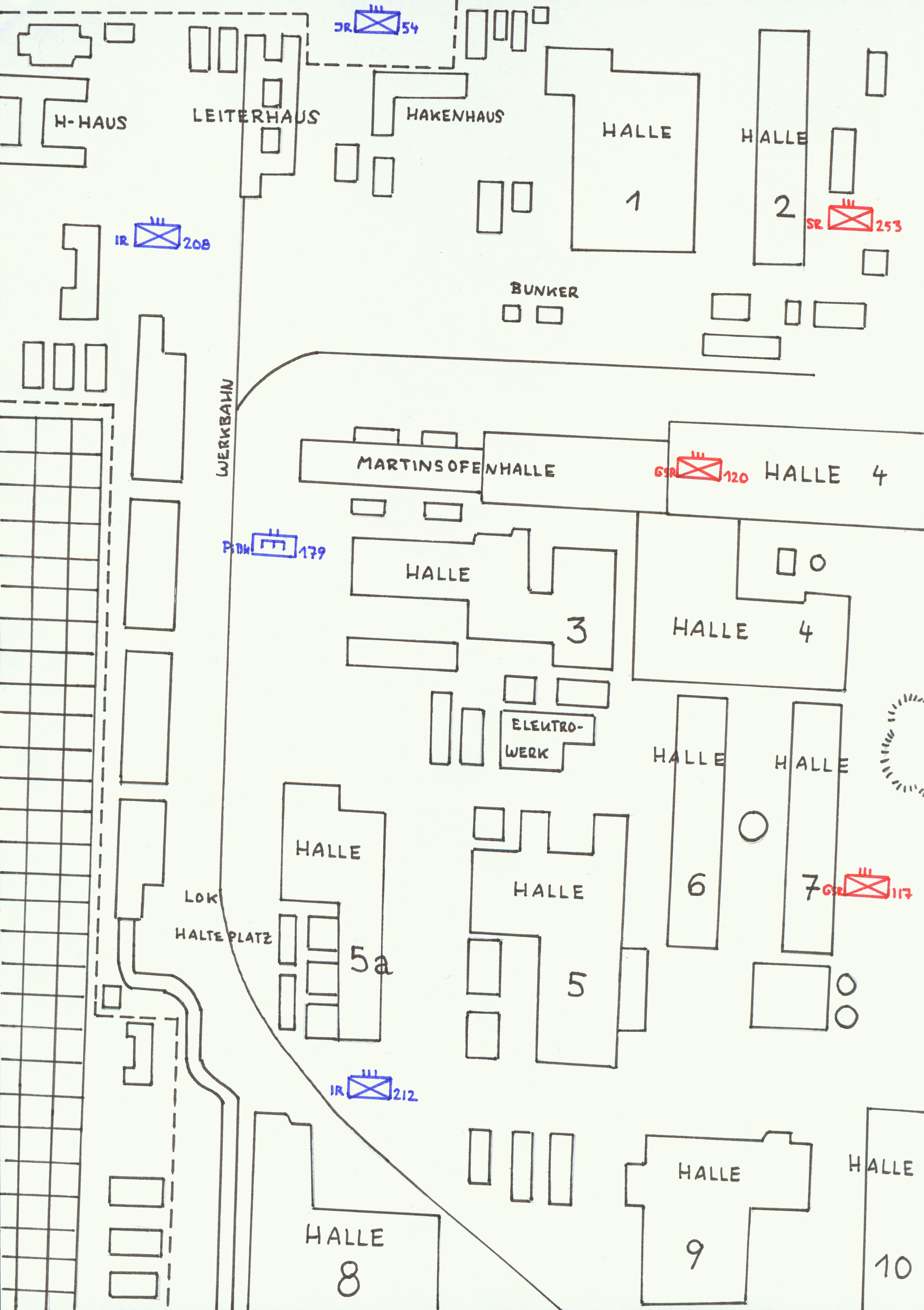 draw-out sketch-up according to Glantz